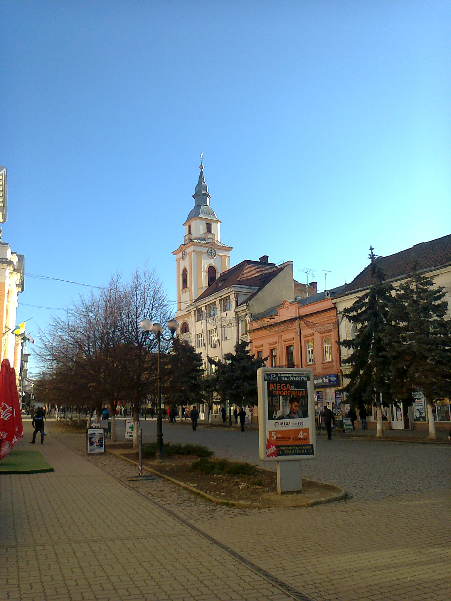 Reformed Church in Beregszász (Beregovo, Ucraine)